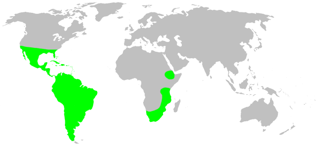 Caponiidae habitat distribution, drawn after Platnick: World Spider Catalog 7.0. This is not a precise rendering of the distribution! If you have better information, please replace this map, or send me the info, and i will redraw it.